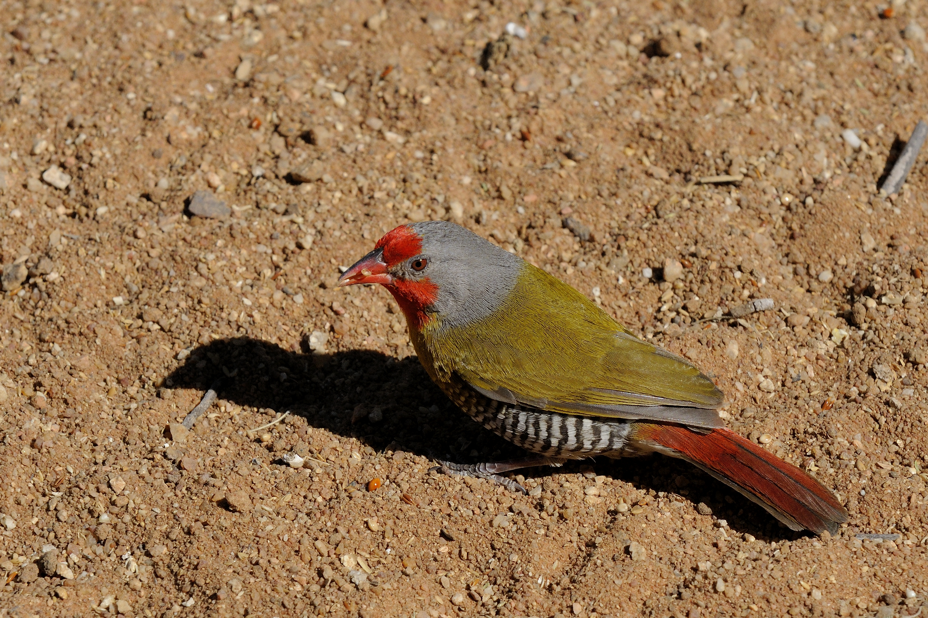 Melba finch (Pytilia melba), Okonjima, Namibia